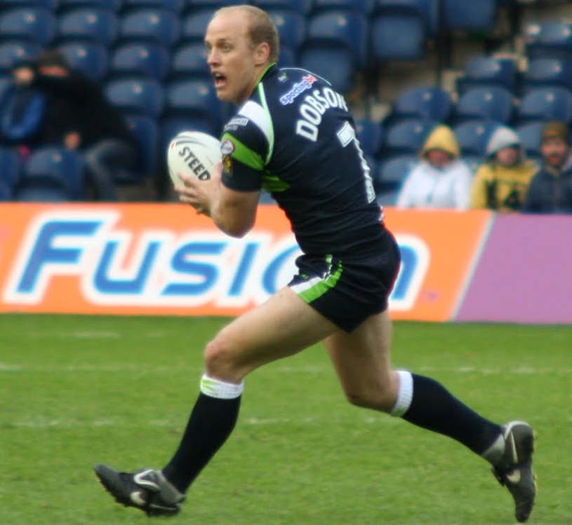 Mick Dobson